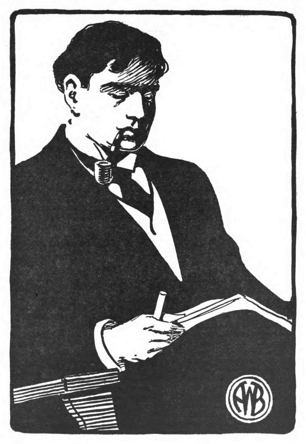 Arthur Stringer (writer)